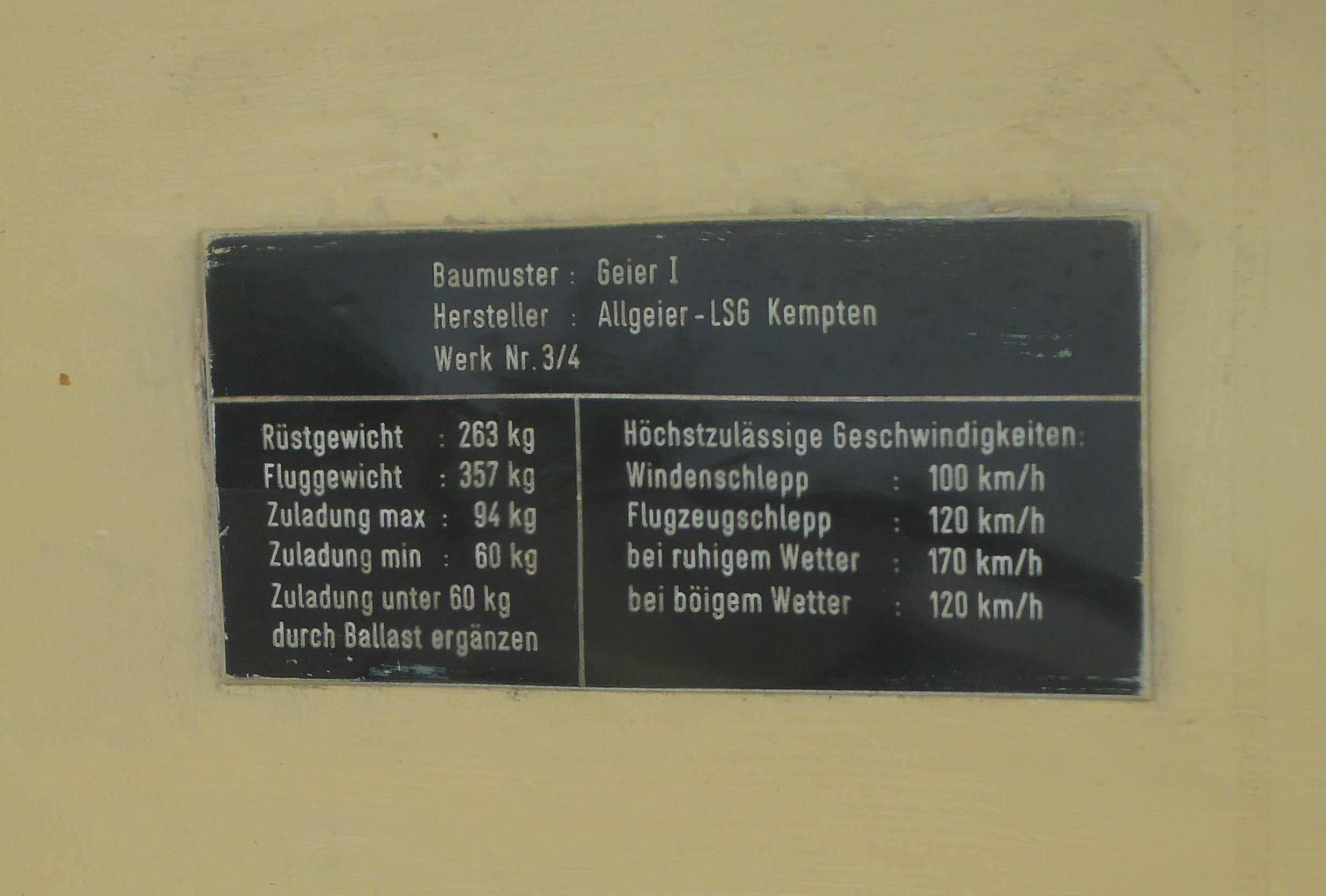 Type plate of the sailplane Geier I